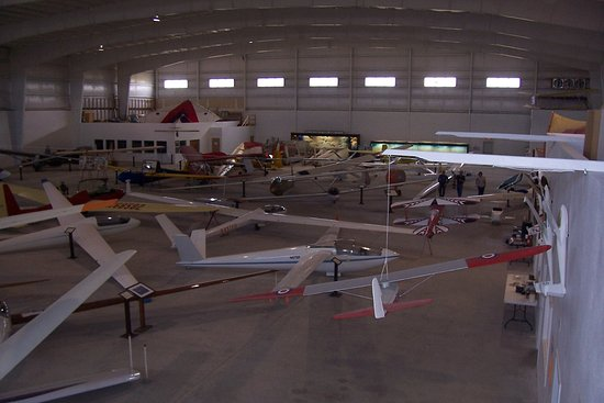 It is of the US Southwest Soaring Museum with planes.